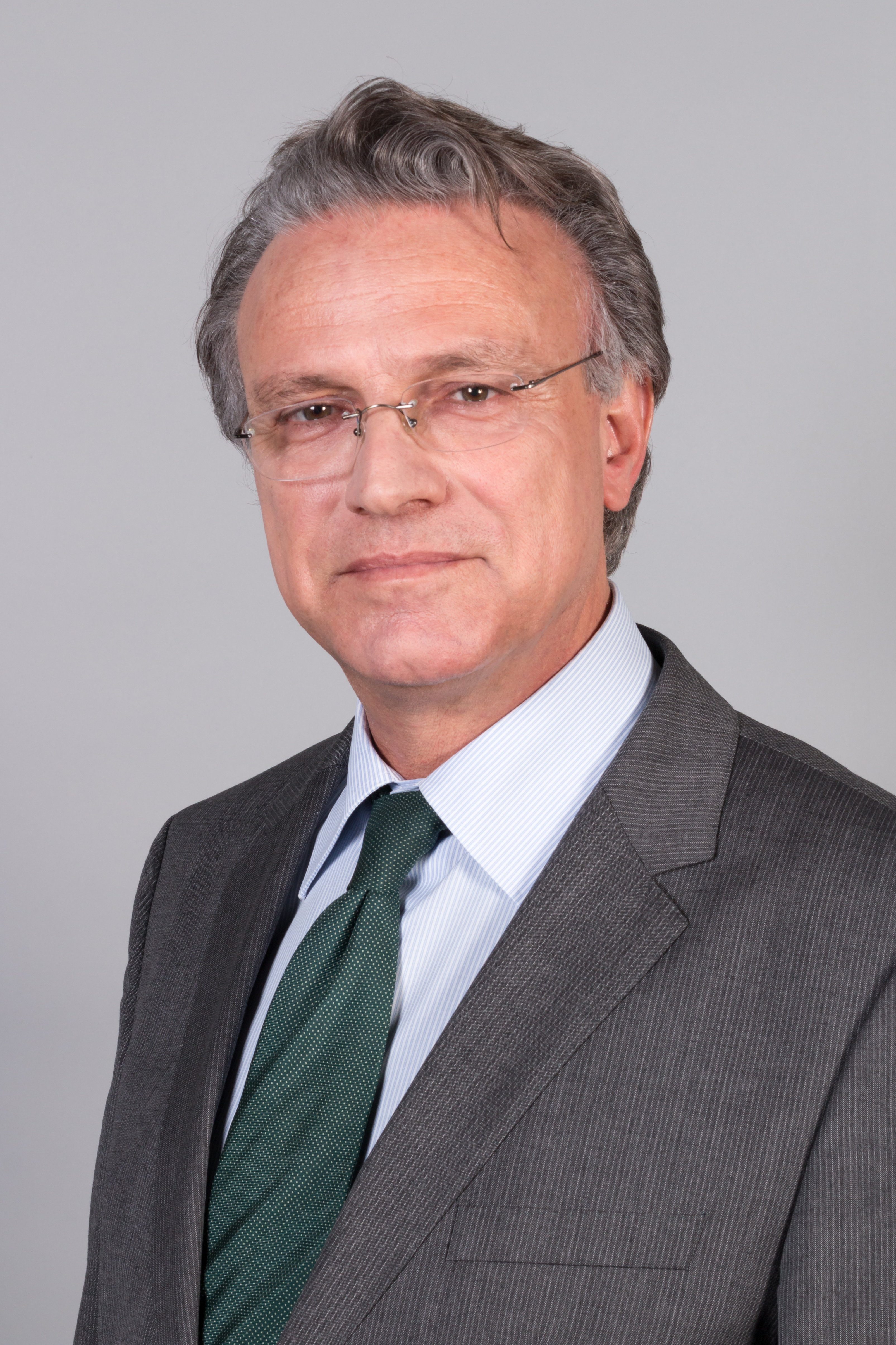 Takis Hadjigeorgiou, AKEL, Cypriot Member of the European Parliament